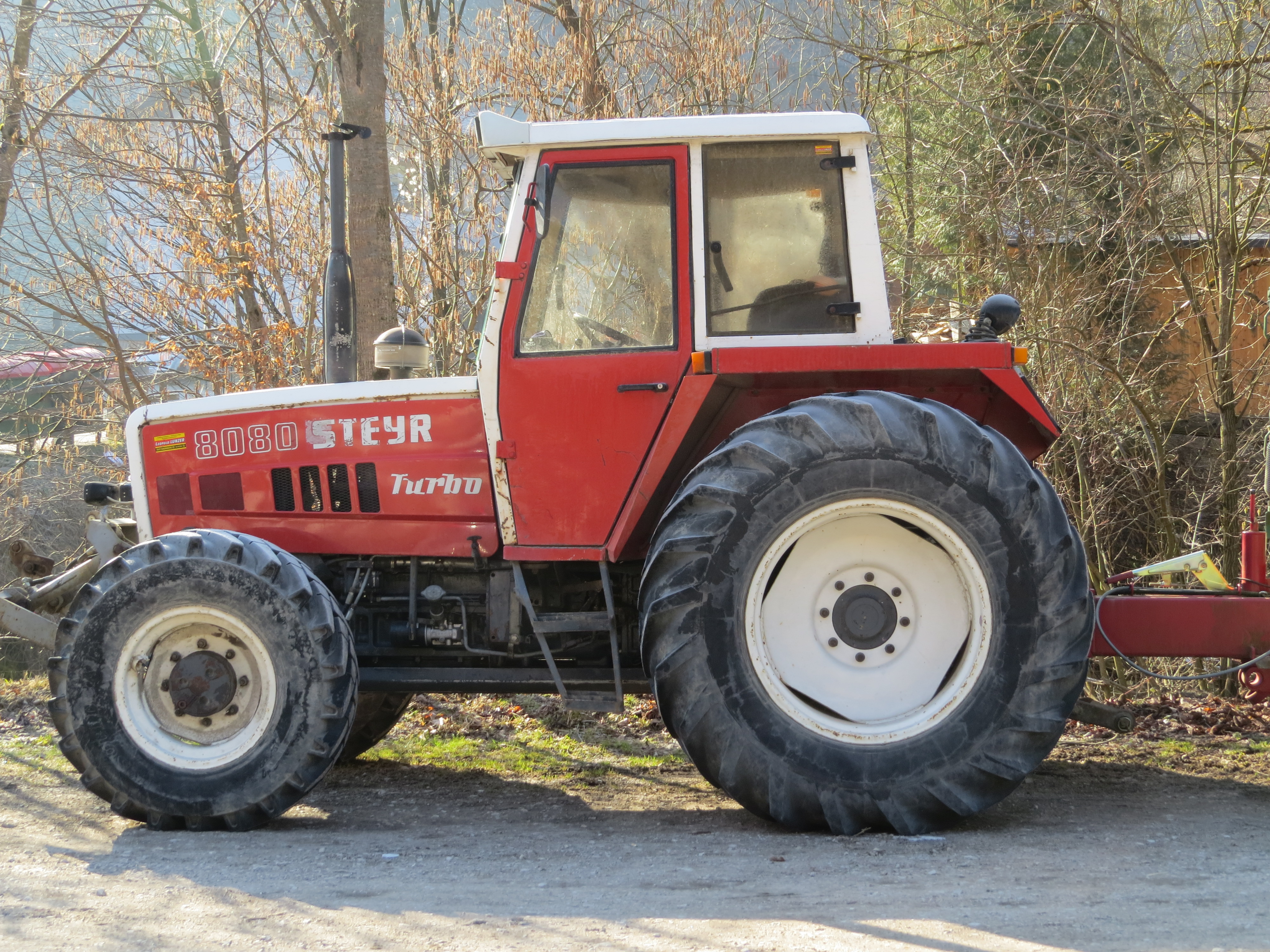 Steyr 8080 in Frankenfels